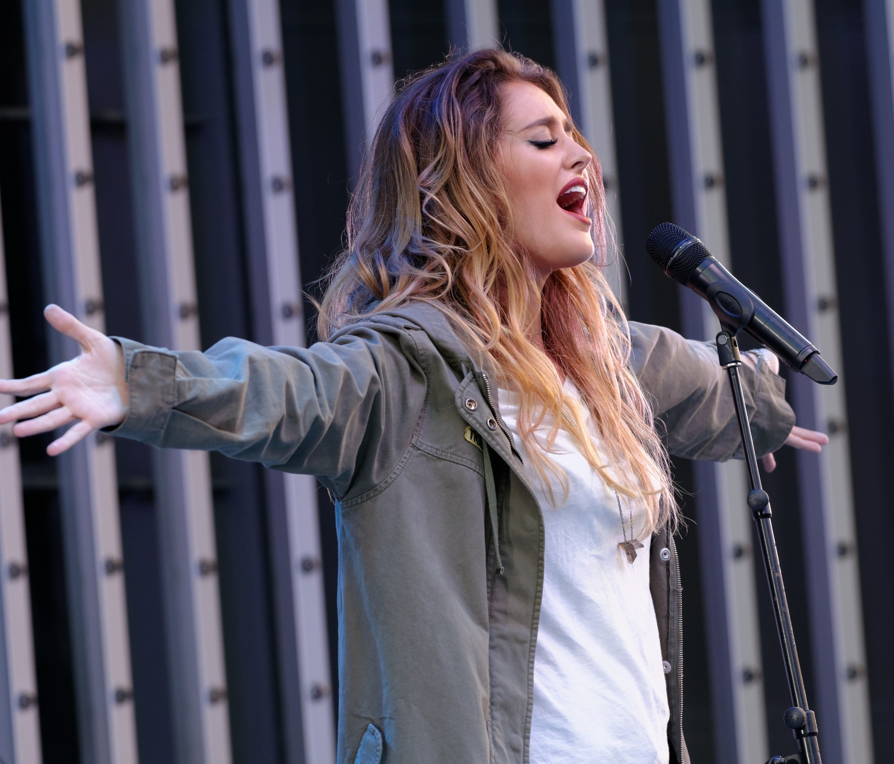 Moxie Raia performing live on the 5 Towers stage at Universal Citywalk, in Universal City (Los Angeles) California on Thursday July 10th, 2014.